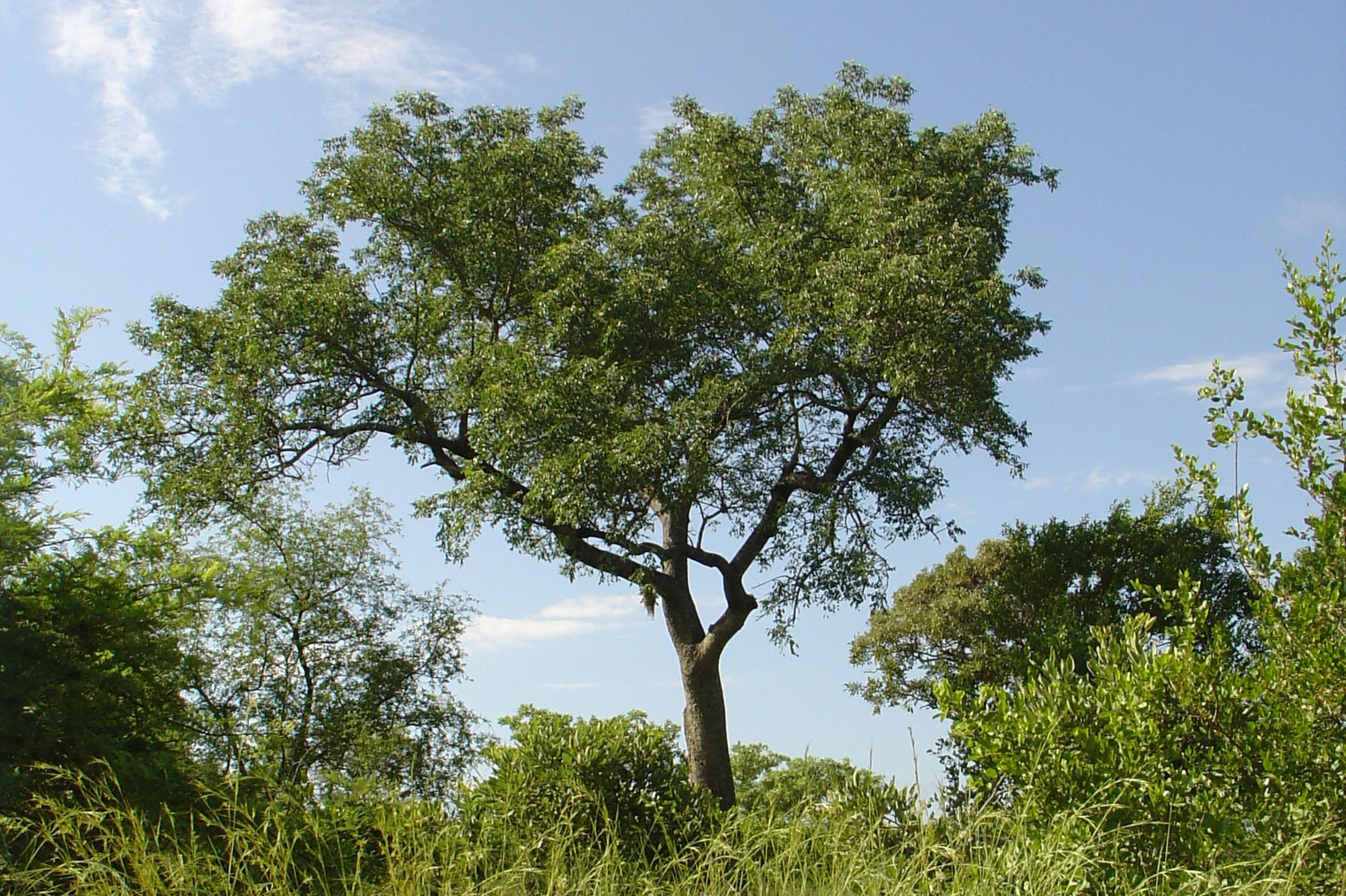 Sclerocarya birrea